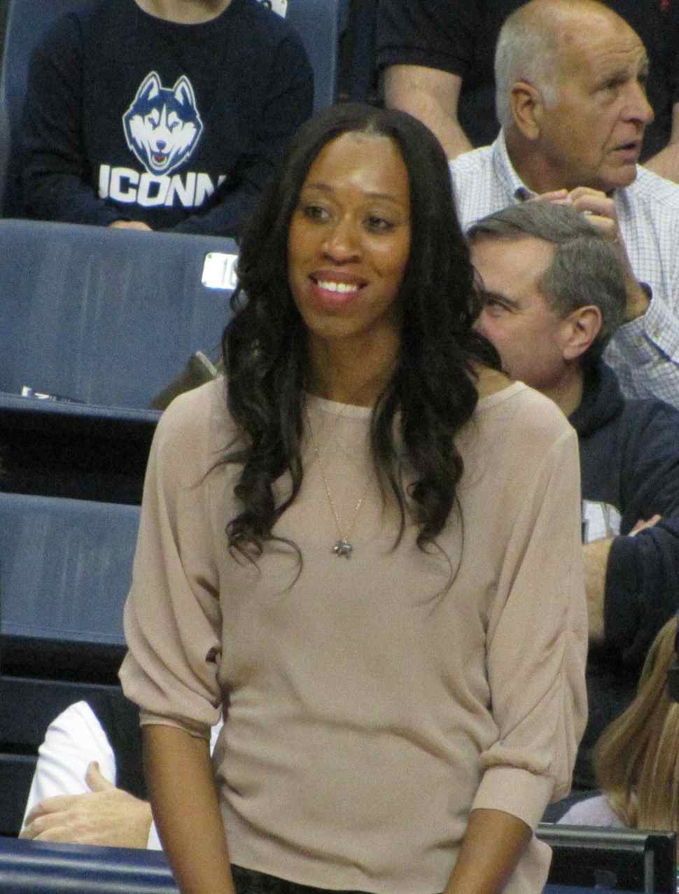 Jessica Moore at induction ceremony On December 20, 2013, the University of Connecticut inducted two women's basketball team, the National Championship winning teams of 2002–03 and 2003–04 into the Huskies of Honor.